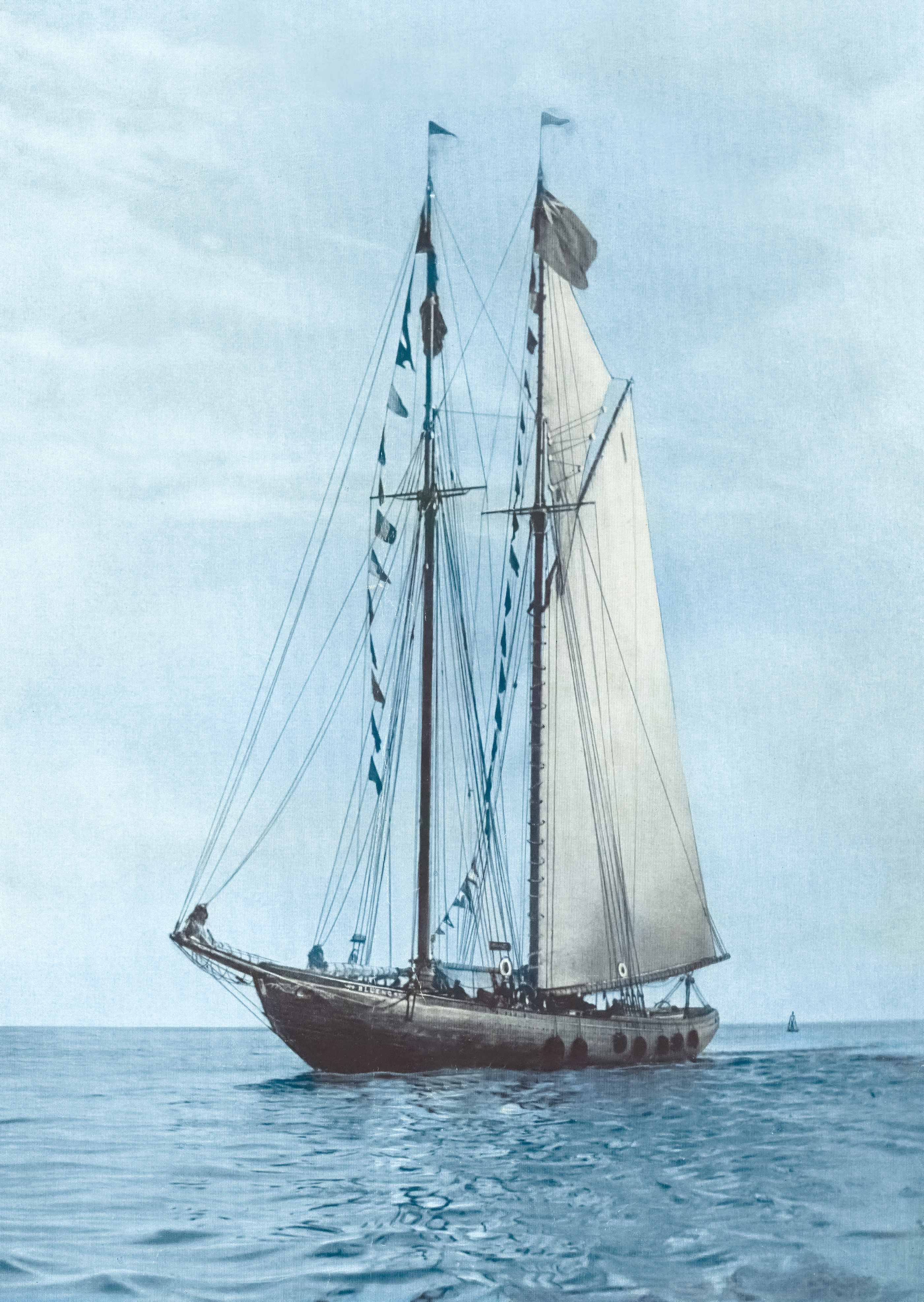 Partial restoration of image: The Famous Bluenose (colourized photograph).